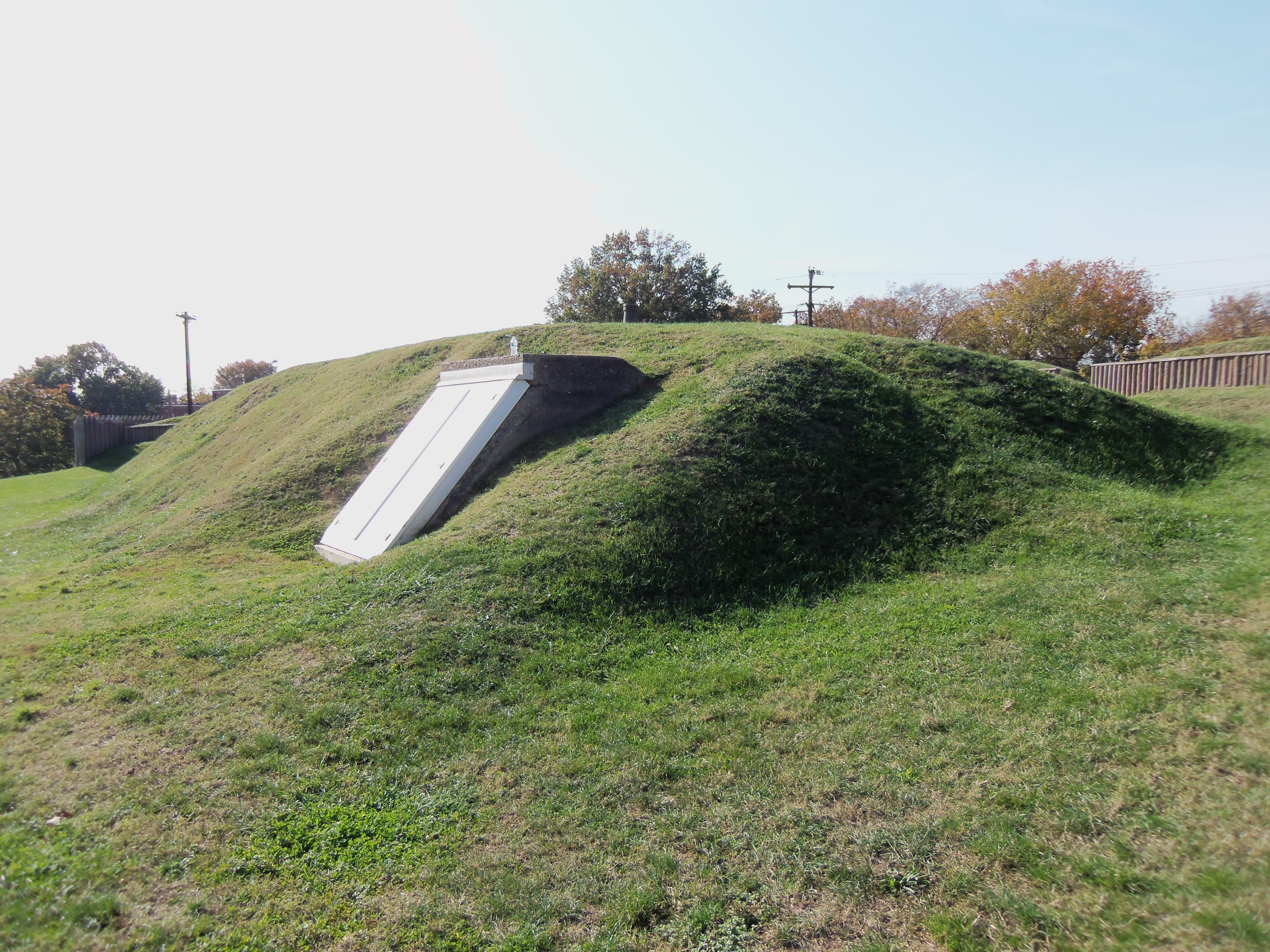 Fort Stevens Park is the location of a Civil War era fortification on the north side of Washington, D.C. in the Brightwood neighborhood. It was part of the Civil War defenses of the District of Columbia and named for Brig. Gen. Isaac Ingalls Stevens who was killed at the Battle of Chantilly (Fair Oaks), Virginia, on September 1, 1862. The fort was the only place in the District of Columbia that the Confederate Army attacked, and the only the place a sitting US President was fired upon in an armed conflict. General Jubal A. Early lead 20,000 Confederates on July 11–12, 1864. The current fortification is a recreation built by the Civilian Conservation Corps in 1937.